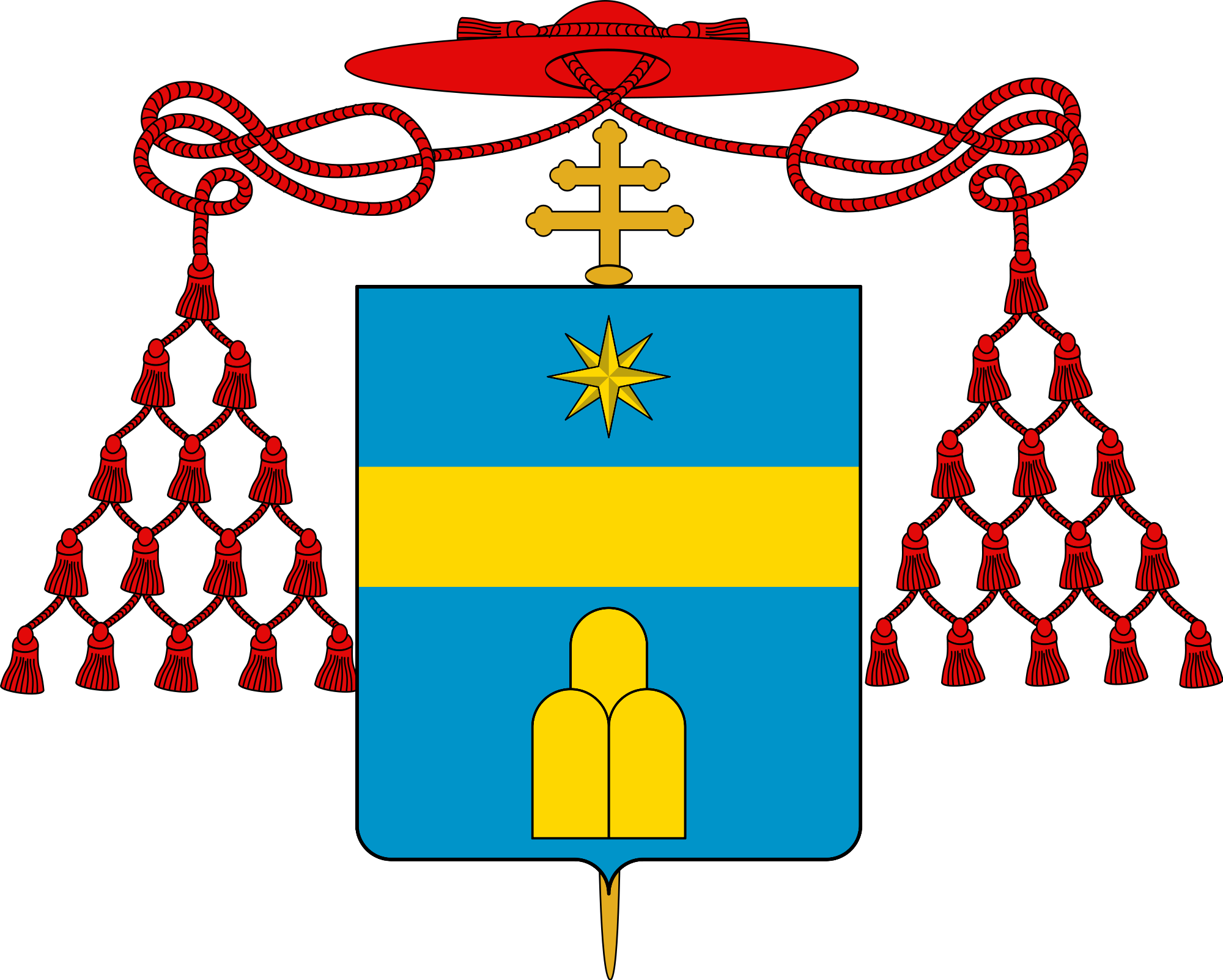 Coat of Arms of the Albani Family (cardinals)